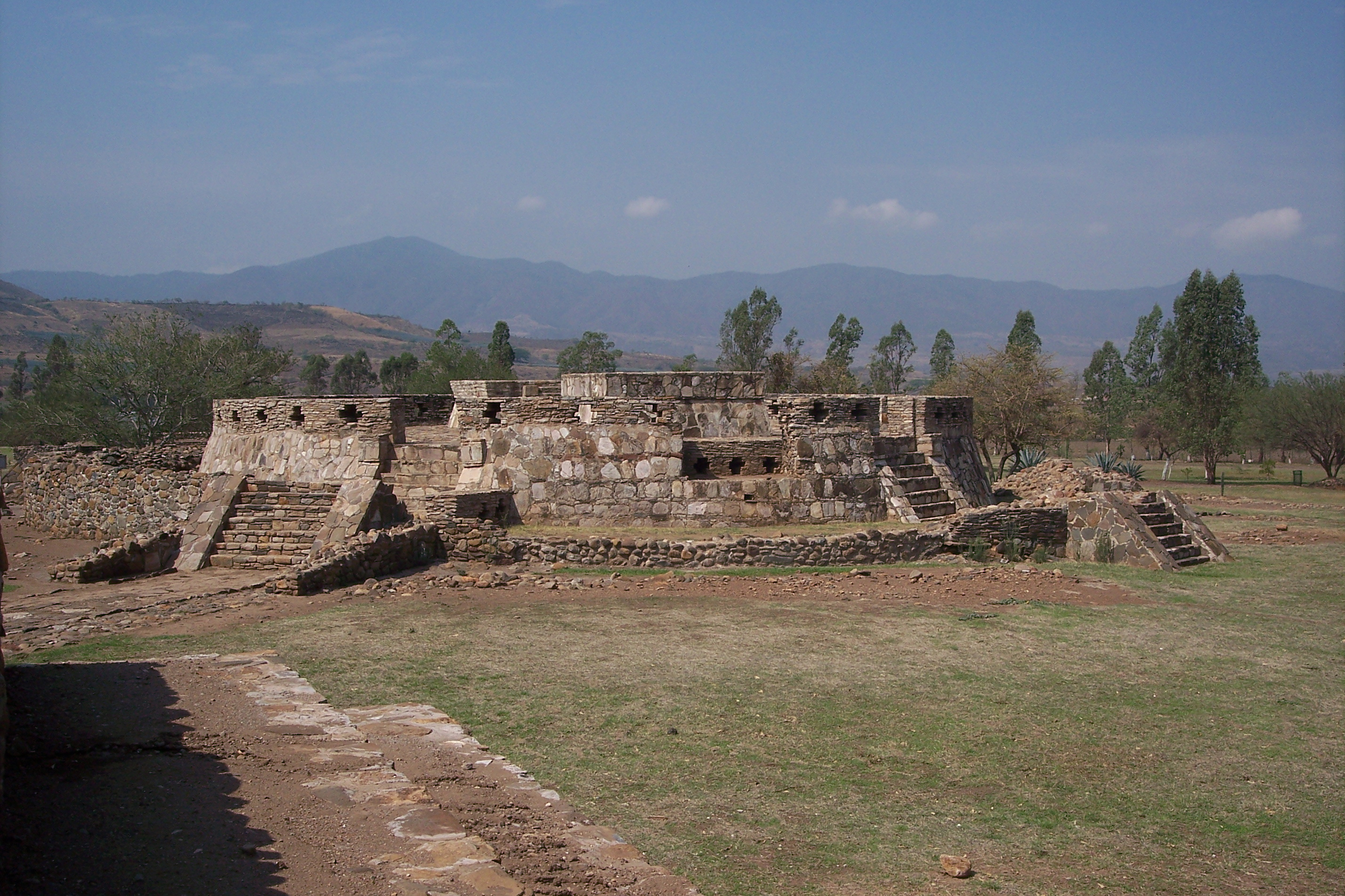 Pyramid of Quetzalcoatl, in the archeology zone of Ixtlan